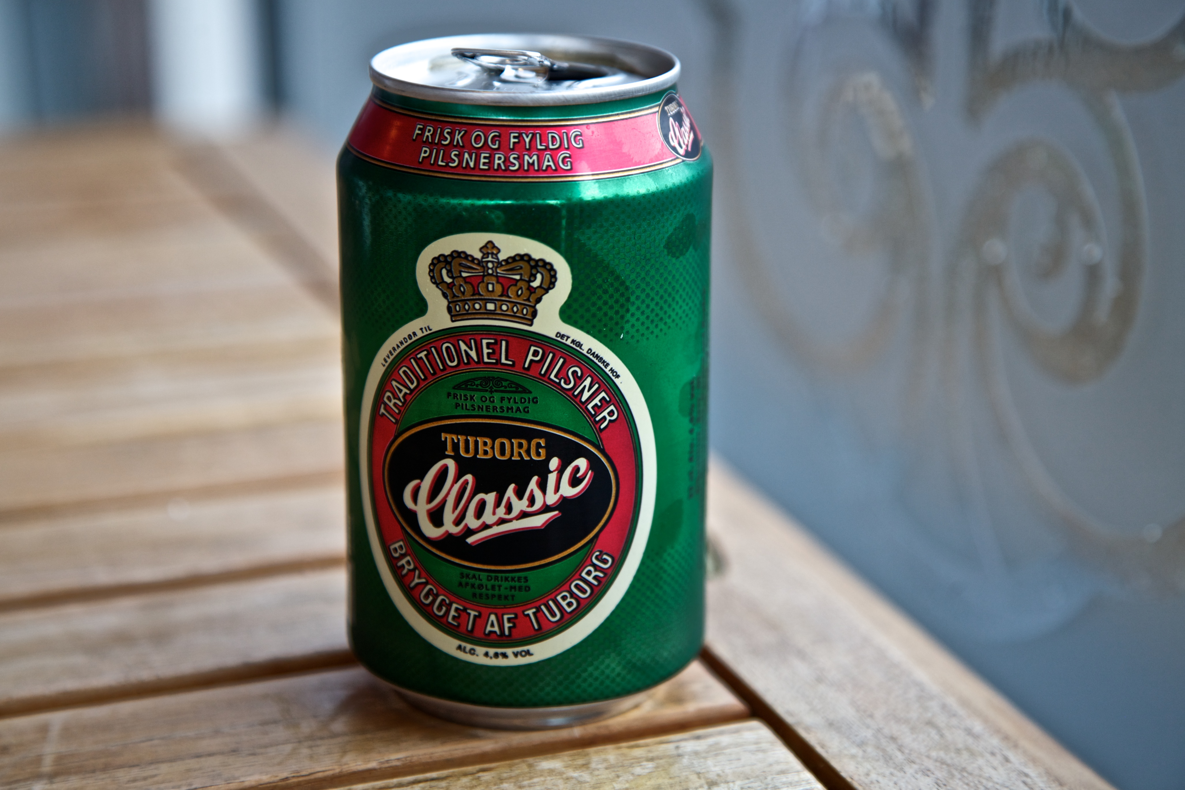 Can of danish beer Tuborg Classic